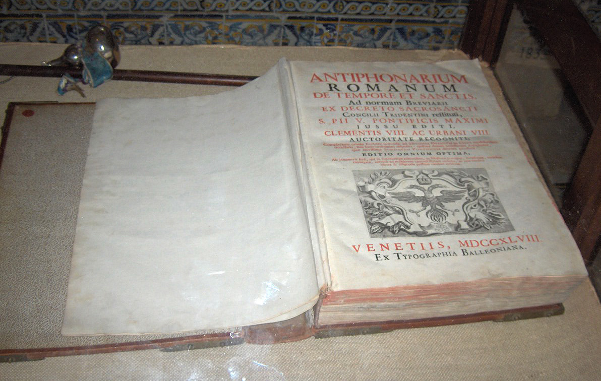 Antiphonary; Church of St. Francis, Evora, Portugal